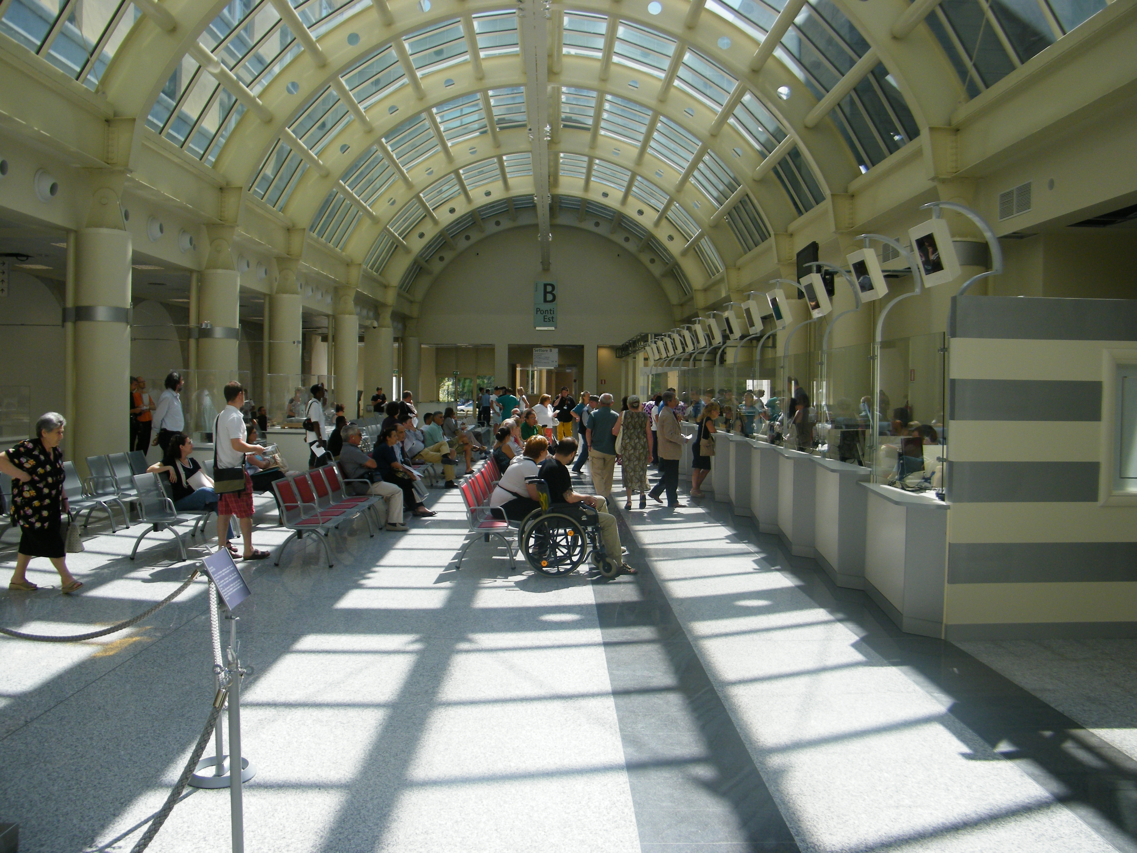 Niguarda hospital- waiting area